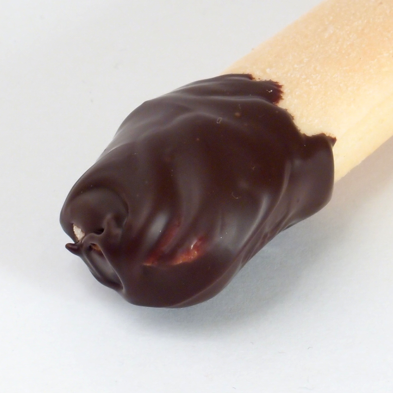 A sample of dark (55 % cocoa) couverture chocolate applied to a ladyfinger biscuit. It was properly tempered and has a shiny finish.